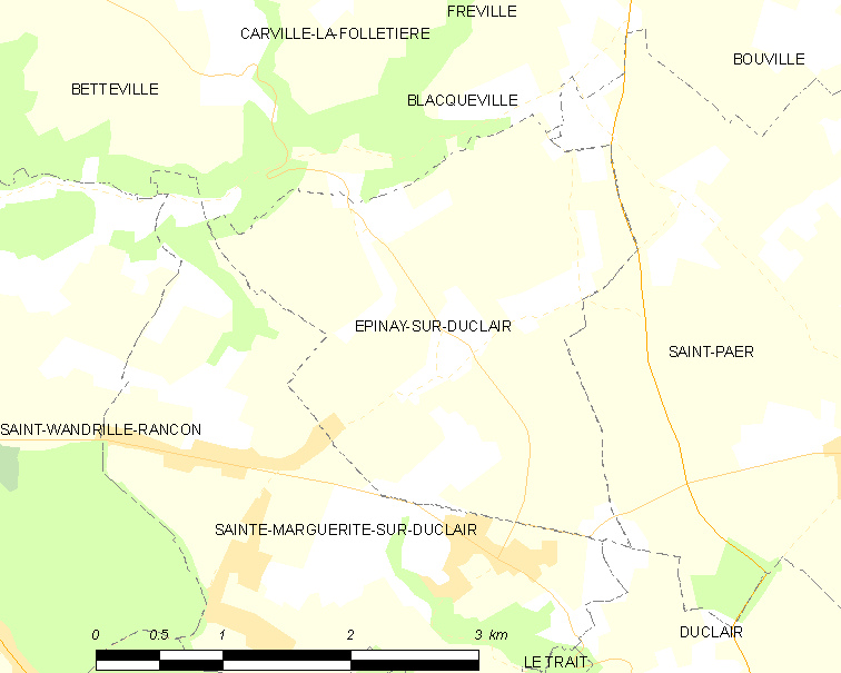 Map of French municipality Épinay-sur-Duclair